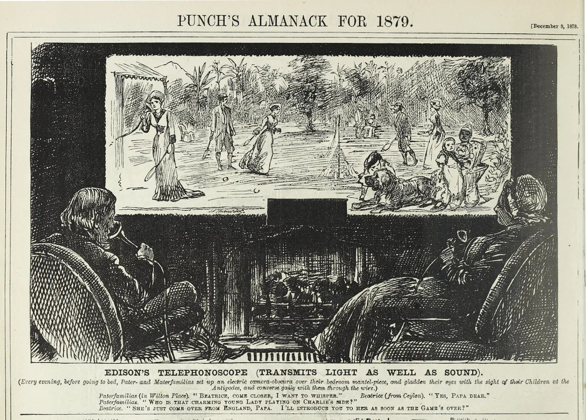 Early television/videophone concept, a forecast (almanac) for 1879, posted in the December 9th, 1878 issue of Punch. Illustration description Punch Magazine cartoon print: Edison's Telephonoscope (transmits light as well as sound). (Every evening, before going to bed, Pater- and Materfamilias set up an electric camera-obscura over their bedroom mantel-piece, and gladden their eyes with the sight of their children at the Antipodes, and converse gaily with them through the wire.). Paterfamilias (in Wilton Place): 'Beatrice, come closer, I want to whisper.' Beatrice (from Ceylon): 'Yes, Papa dear.' Paterfamilias: 'Who is that charming young lady playing on Charlie's side?' Beatrice: 'She's just come over from England, Papa. I'll introduce you to her as soon as the game's over?' George du Maurier's cartoon of 'an electric camera-obscura' is often cited as an early prediction of television and also anticipated the videophone, in wide screen formats and flat screens. The screen is approximately 2 metres wide and appears to have an aspect ratio of 2.7:1, the same as Ultra Panavision. Artist: George Du Maurier, Published: Almanack for 1879